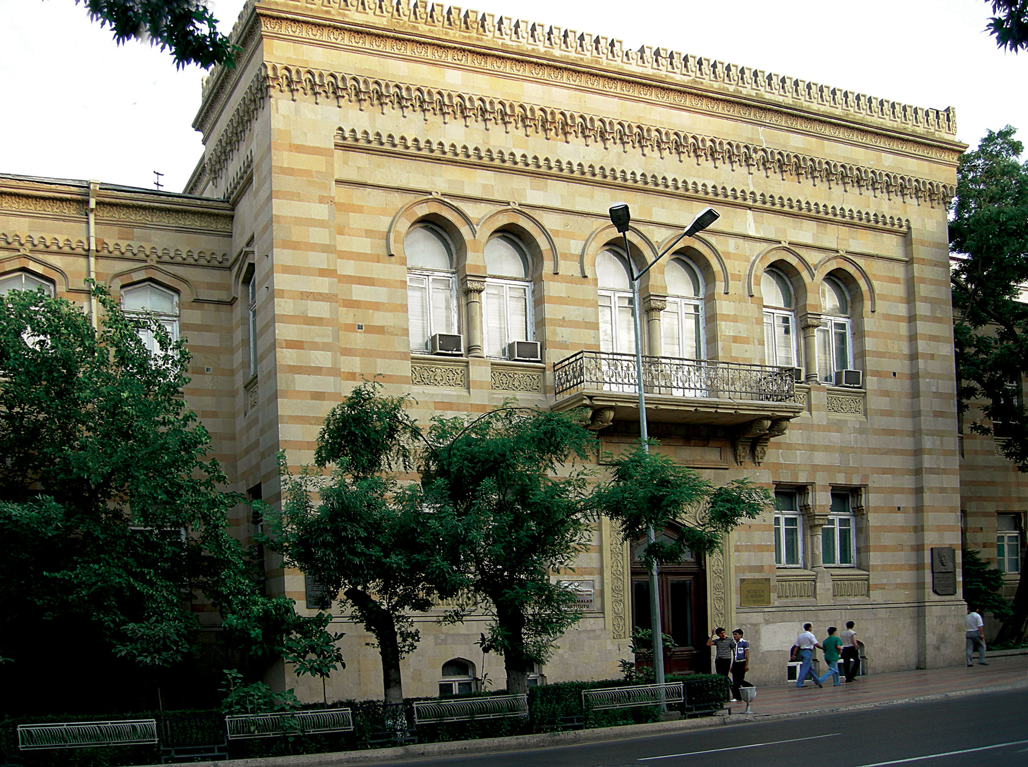 Institute of Manuscripts in Baku. Yusif Vazir Chamanzaminli's Fund is archived there and is one of the largest collections despite the fact that he died in Stalin's GULAG in 1943.